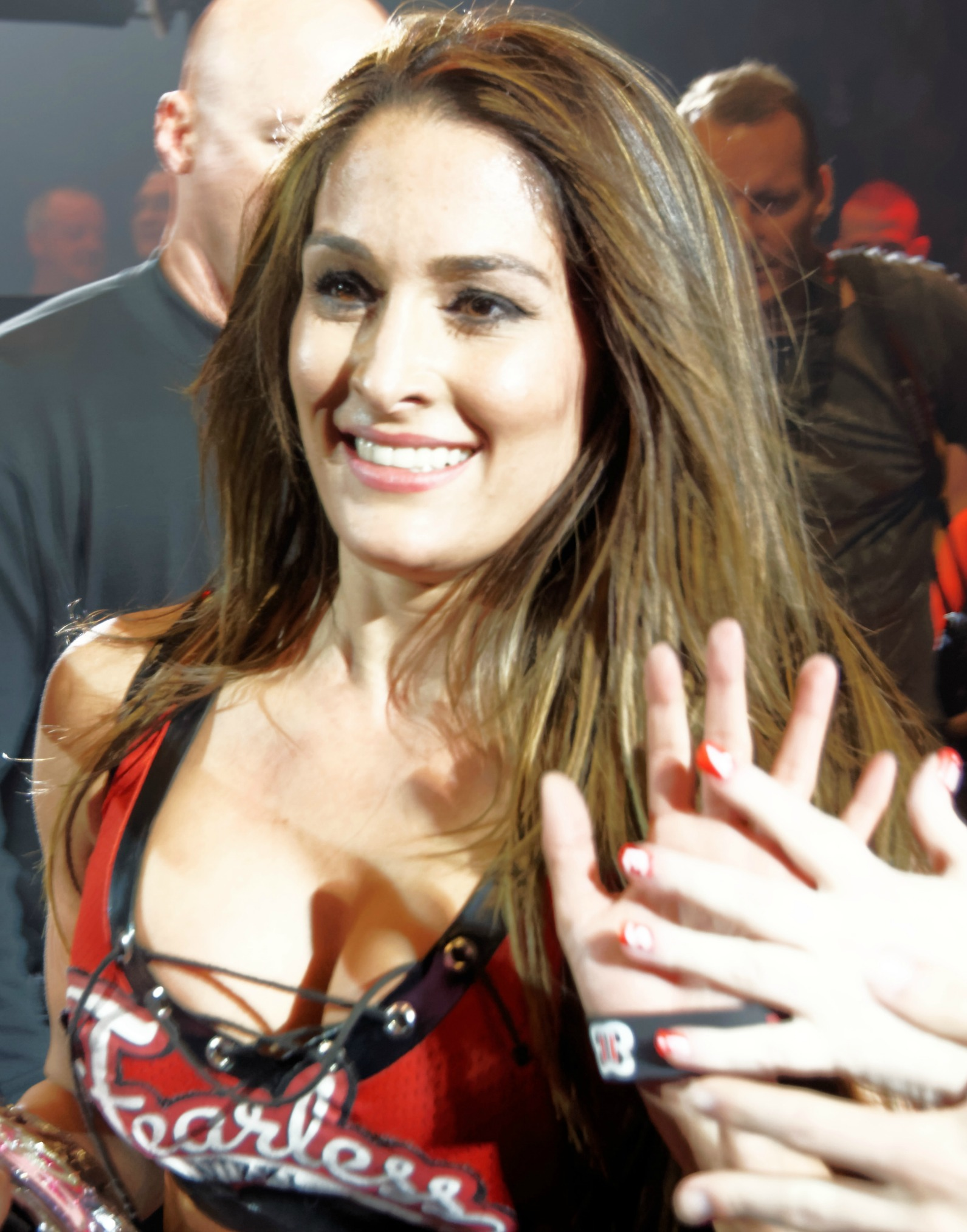 Nikki during a WWE live event in April 17, 2015.